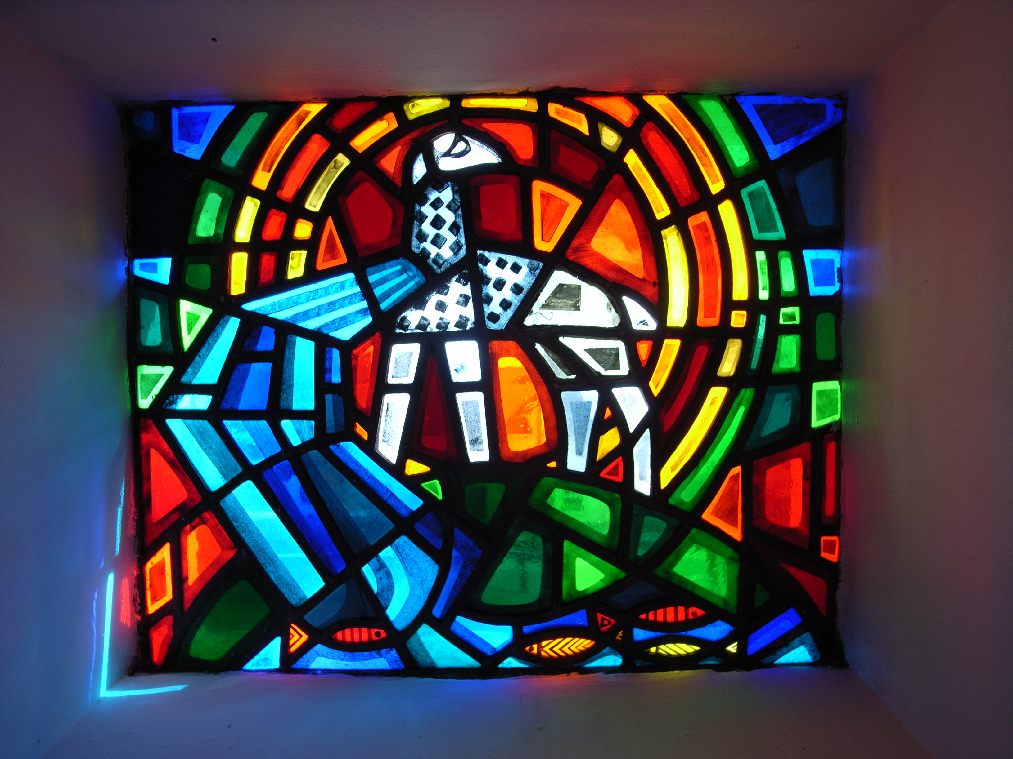 Archangel Saint Michael Church (Roman Catholic), Creeslough, County Donegal, Ireland